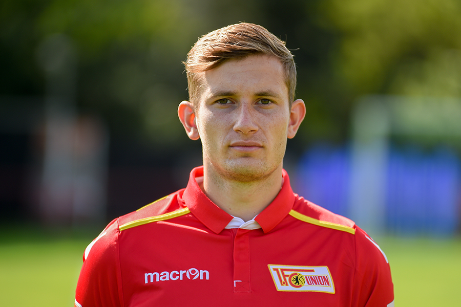 Teamfoto 2016/17